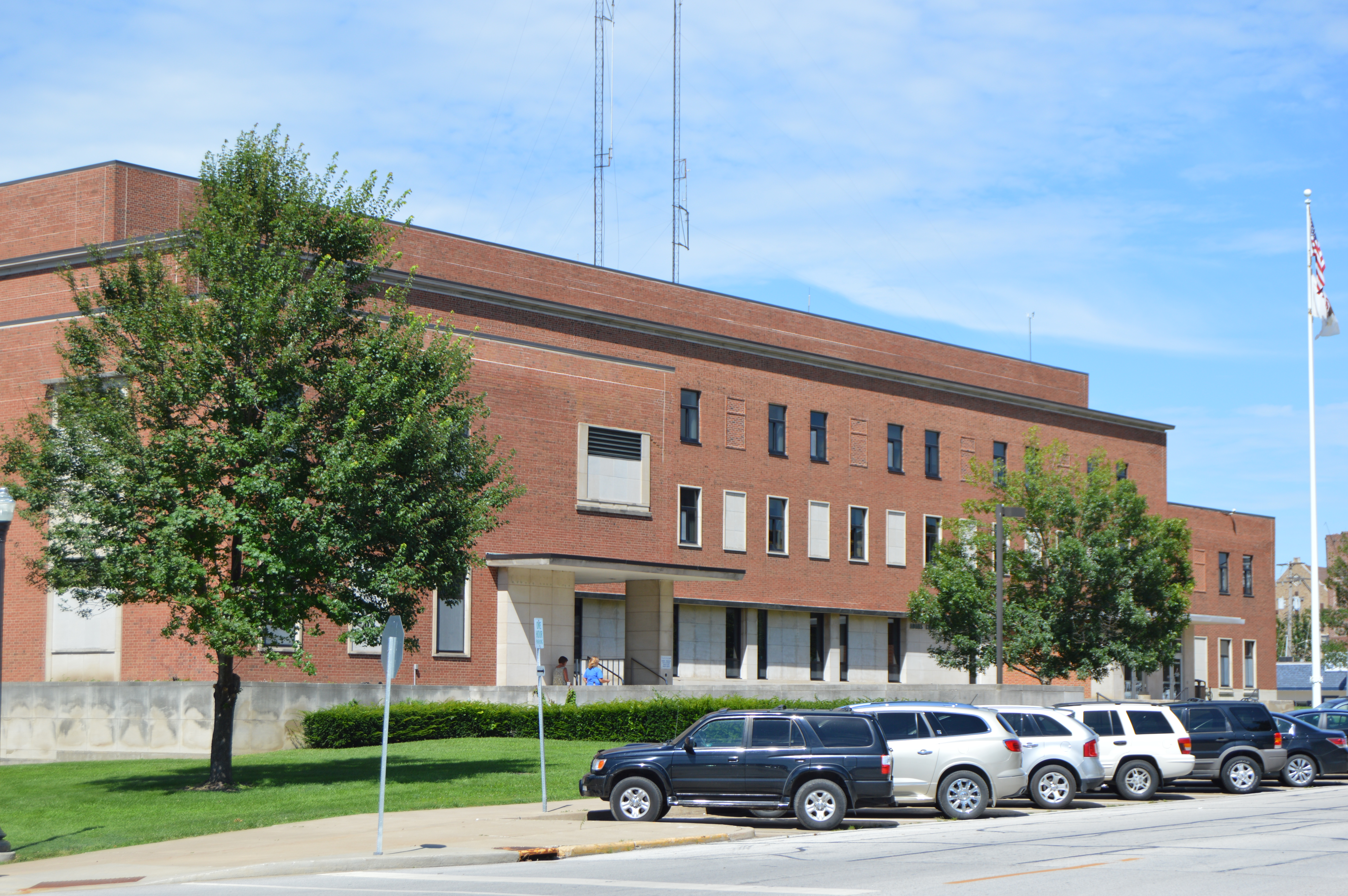 Front of the Adams County Courthouse, located at 507 Vermont Street in Quincy, Illinois, United States. It was built in 1950.